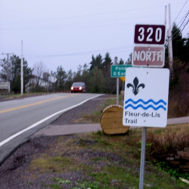 Road sign